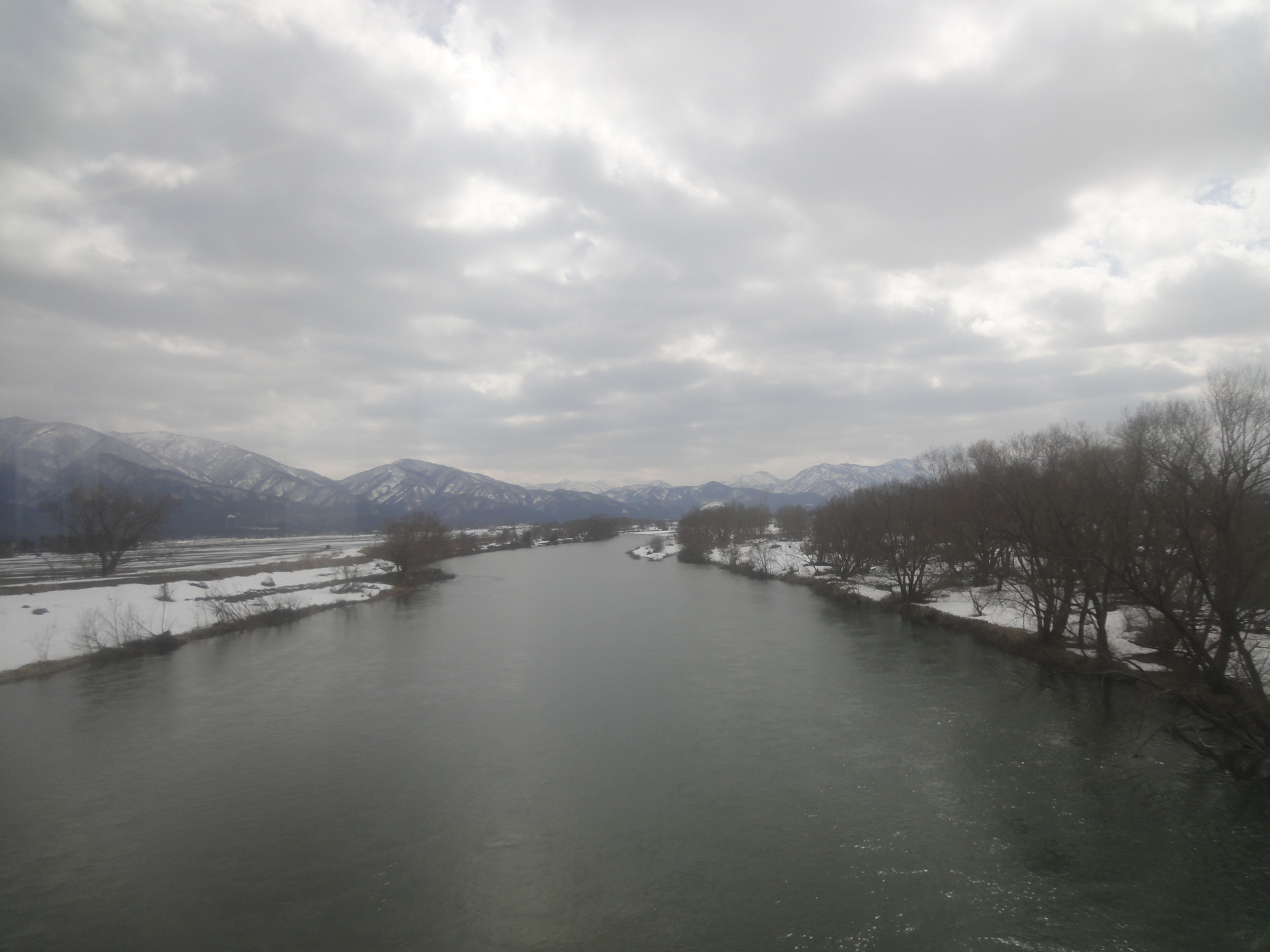 Haide River in Gosen city, Niigata pref Japan